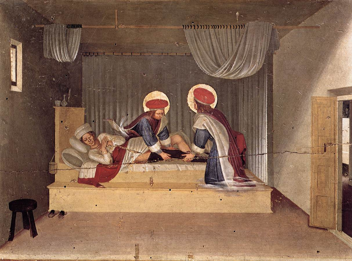 The Healing of Justinian by Saint Cosmas and Saint Damian